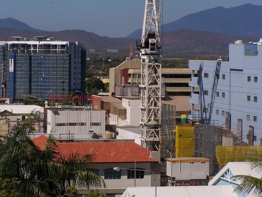 Construction Update of the Crane on Dalgety 08